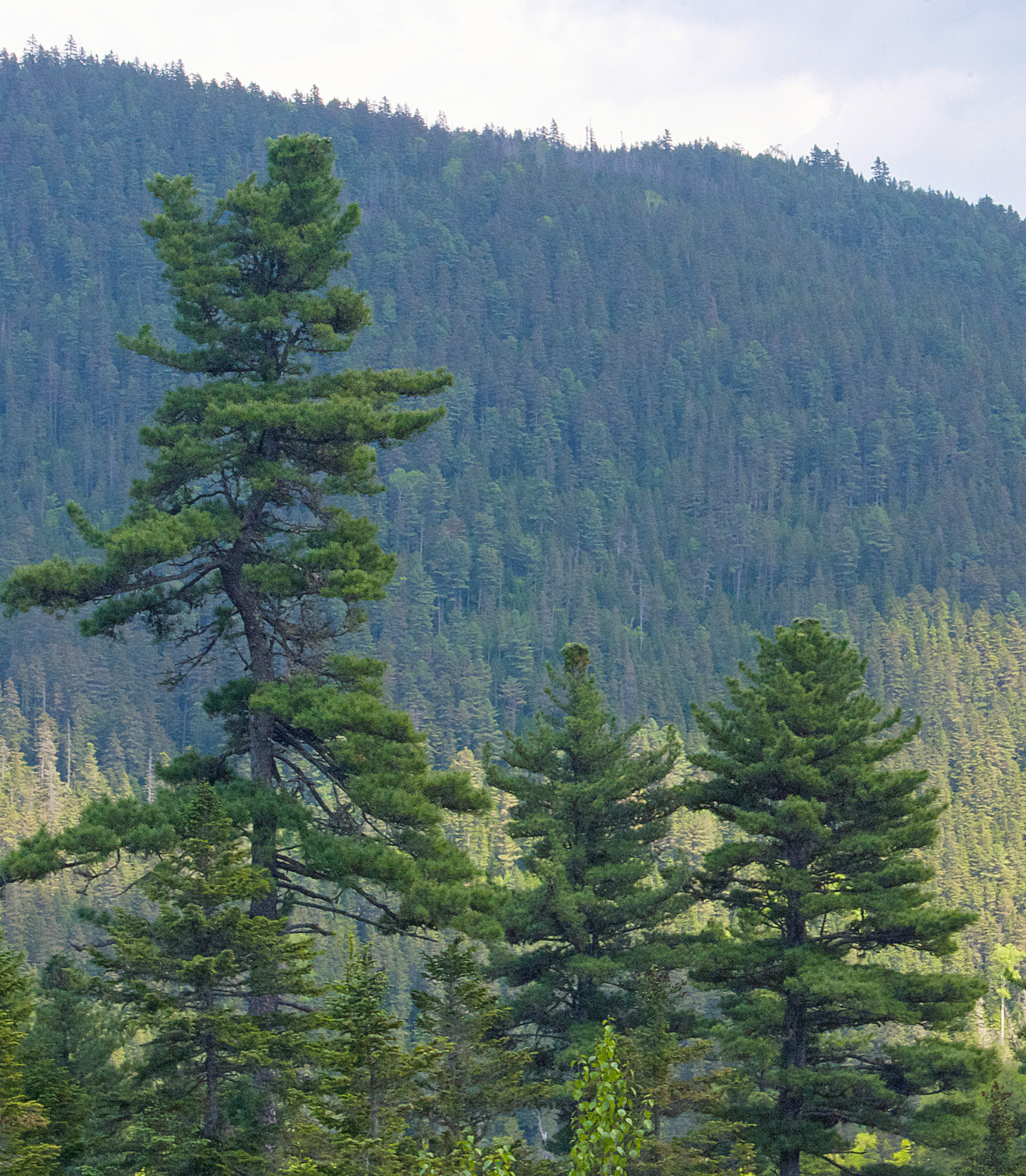 Pinus koraiensis, Cheremshany, Sikhote Alin mountains, Russia This image is related to the protected area of Russia number 2500062